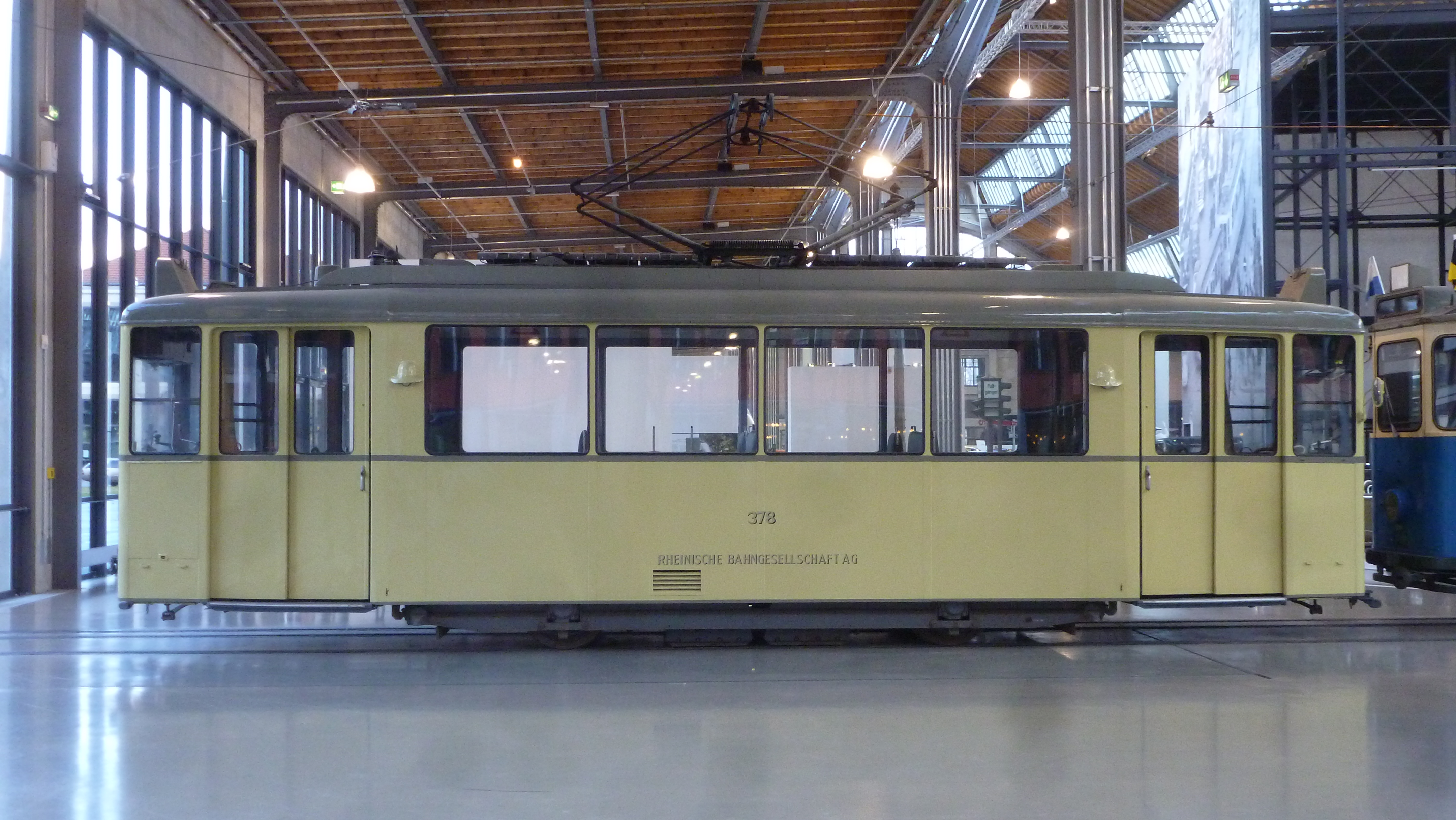 Two-axle tram car type "Verbandswagen" built 1950 as part of a series of 20 made for the Rheinische Bahngesellschaft Düsseldorf by Düwag. Standardized type by Verband Öffentlicher Verkehrsbetriebe, based on the earlier "Aufbauwagen" which was reconstructed on the basis of chassis of destroyed pre-war trams. Preserved at Deutsches Museum Verkehrszentrum München.